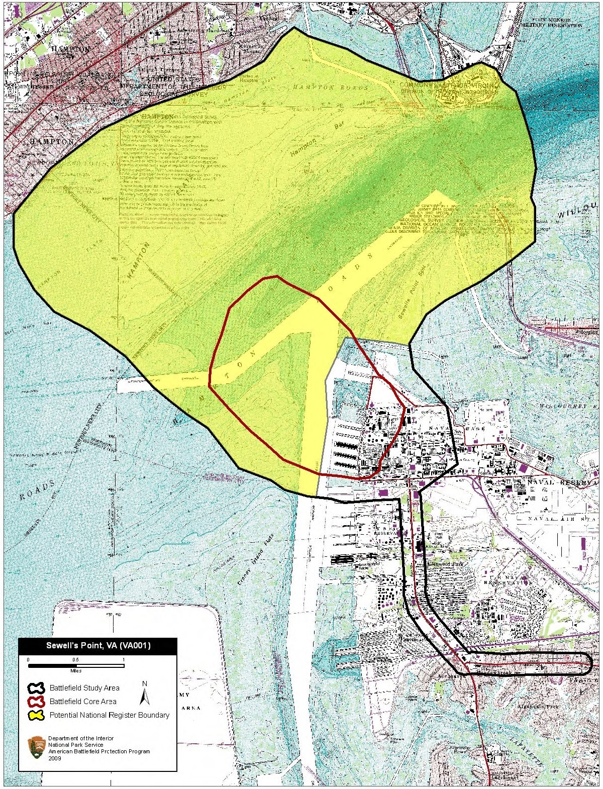 Map of battlefield core and study areas. The revised Study Area includes the Union base of operations at Fort Monroe, shipping lanes, areas of maneuver for the Union gunboats, and the route used to supply the Confederate batteries on Sewell’s Point.